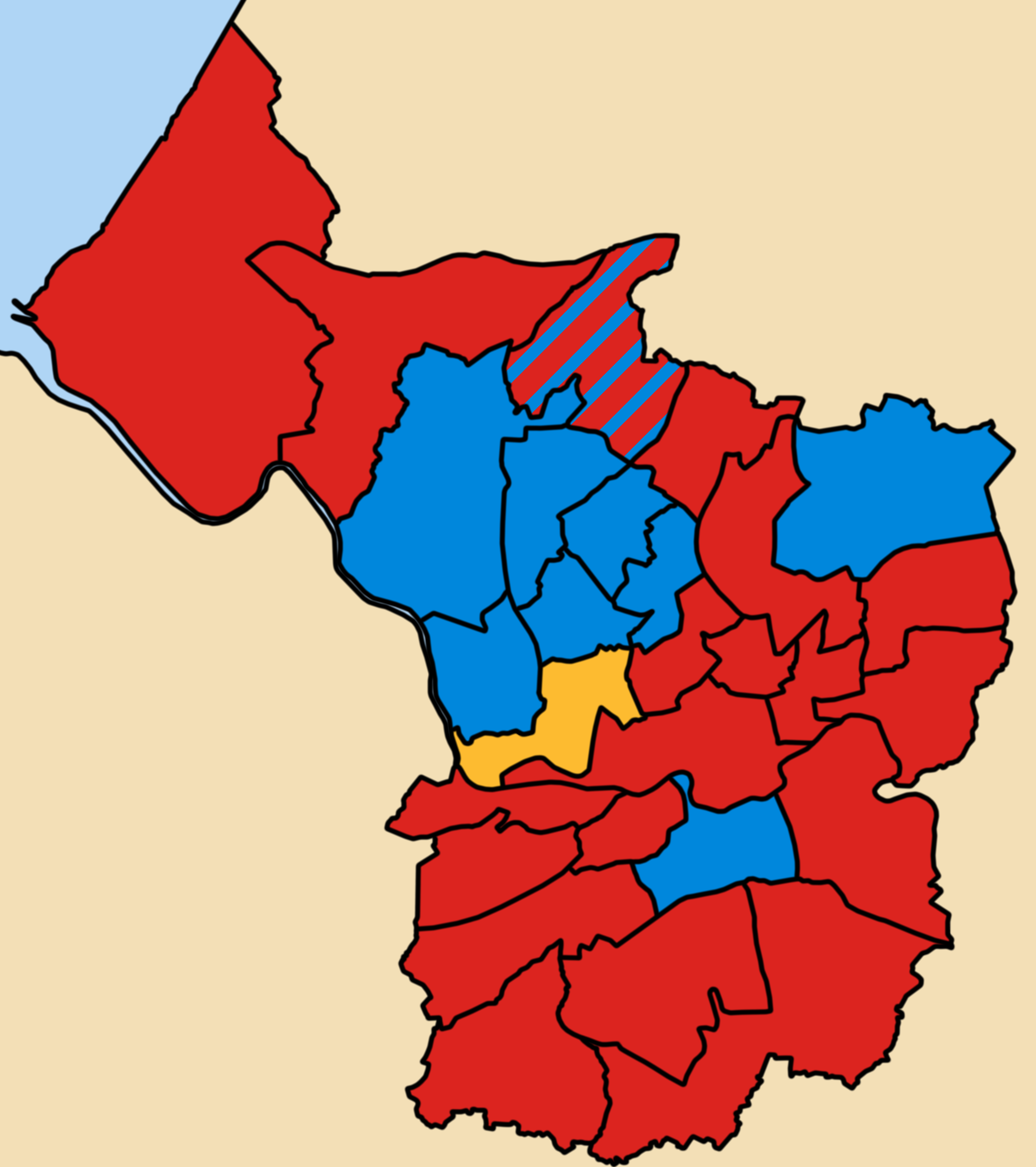 Results of the 1973 local elections in Bristol Colours: Conservative Labour Liberal